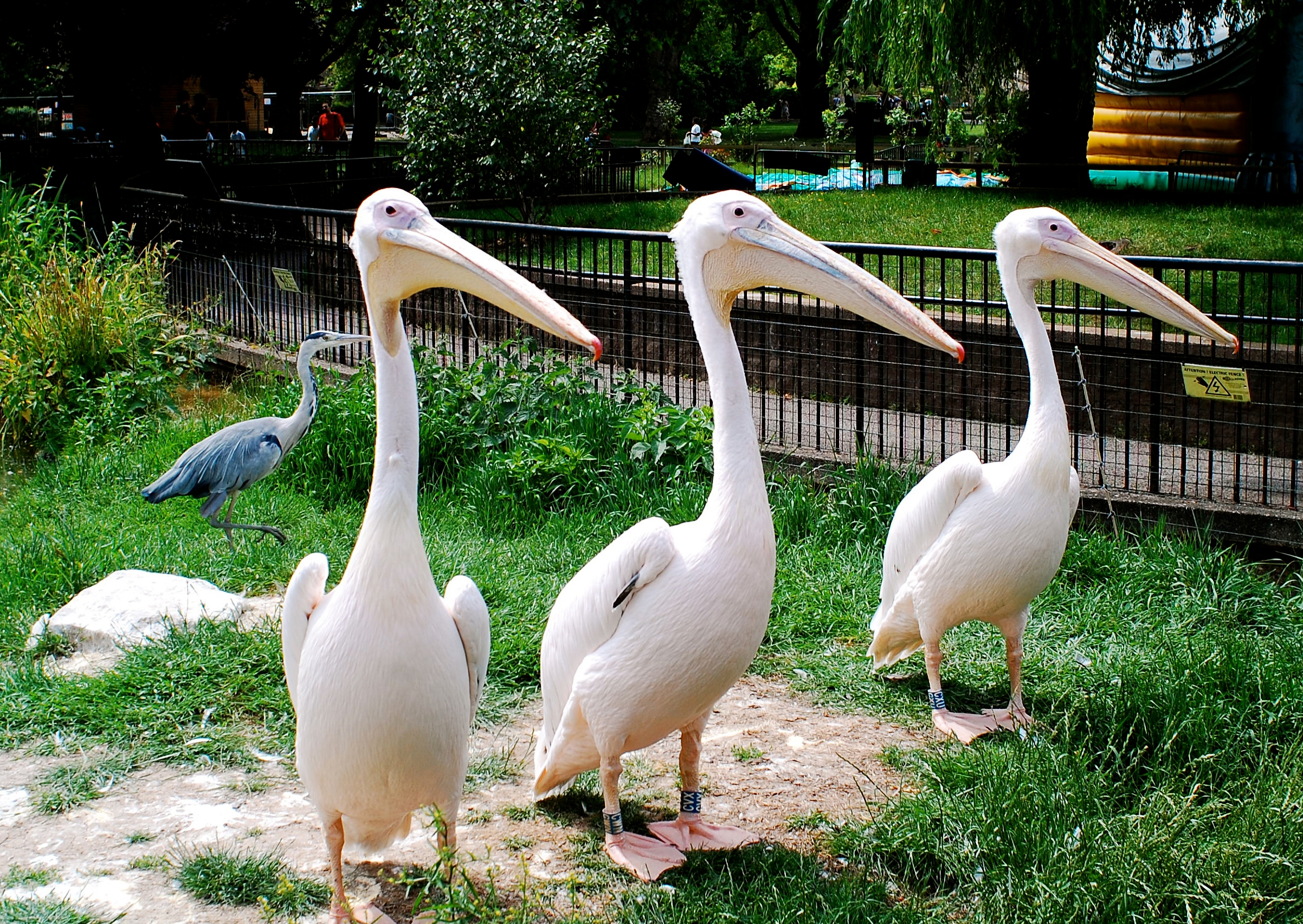 Great White Pelicans at London Zoo, England.